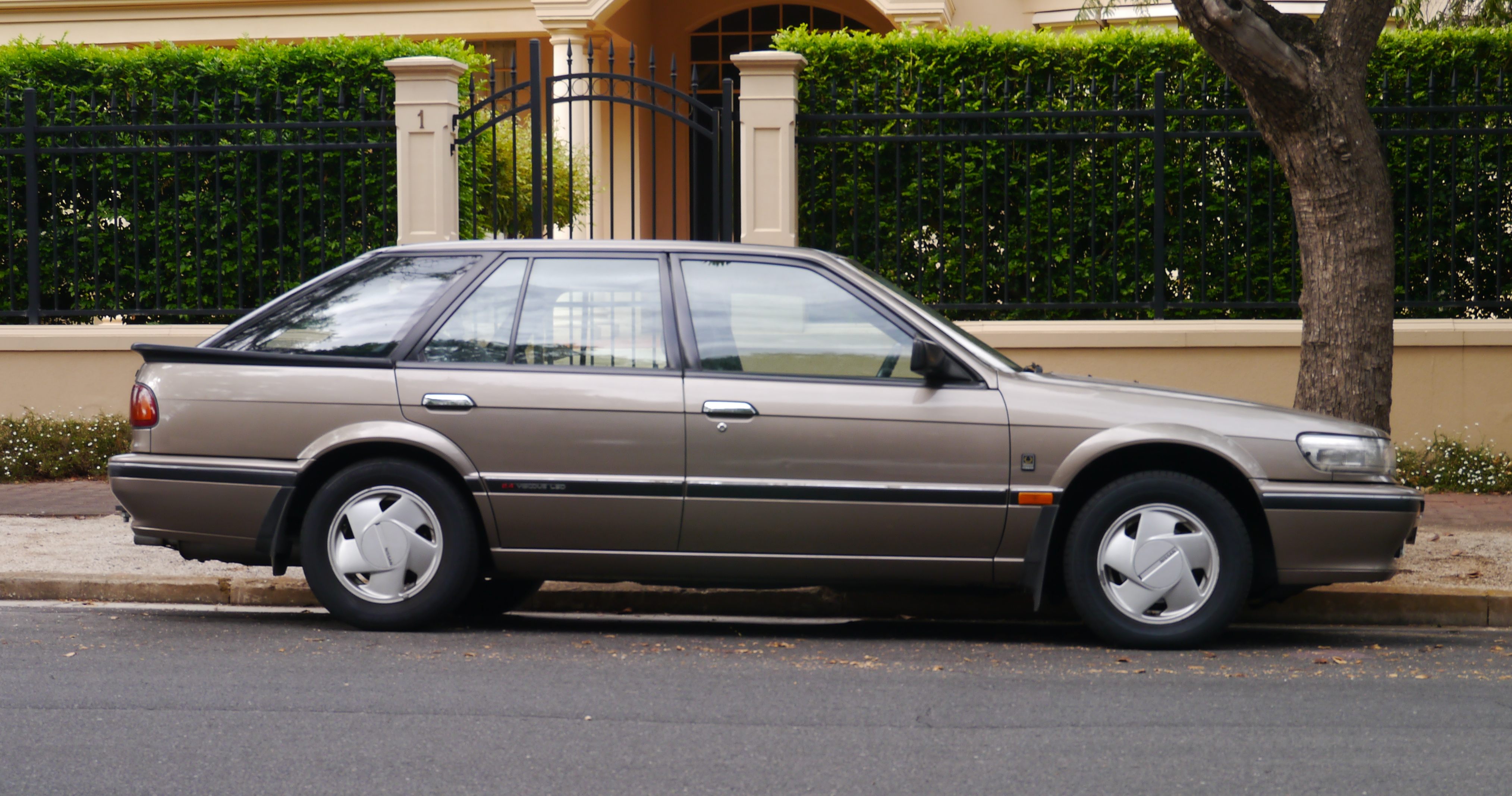 I could only get a side profile picture of this! I was annoyed with myself that I couldn't get a front and rear picture. A very tidy example!